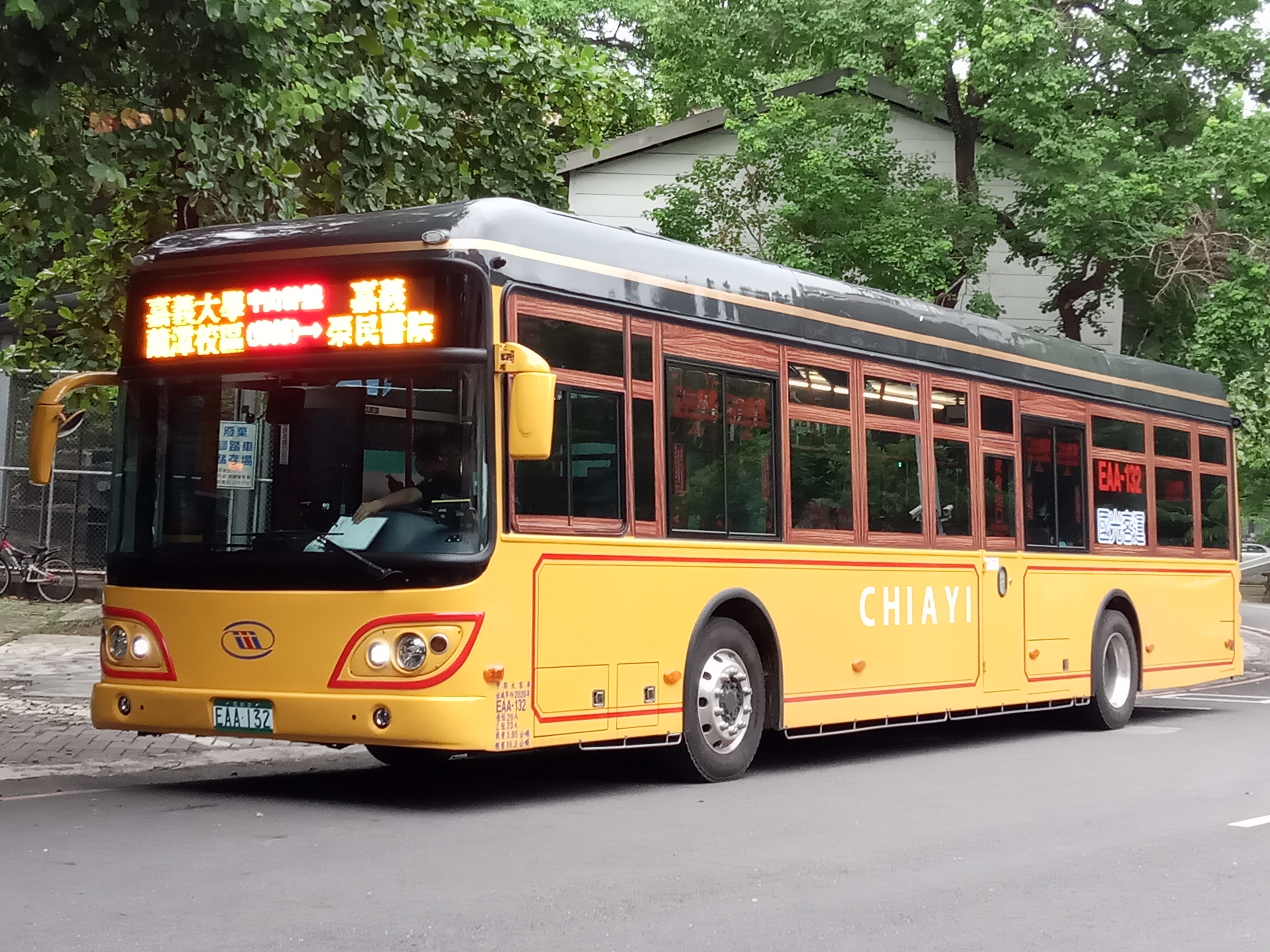 Chiayi City bus EAA-132